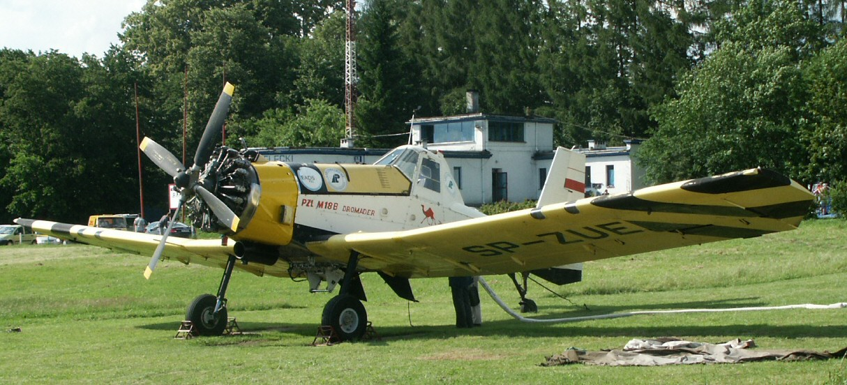 PZL M-18 Dromader - Polish agricultural and firefighting aircraft, at Kielce-Masłów airfield